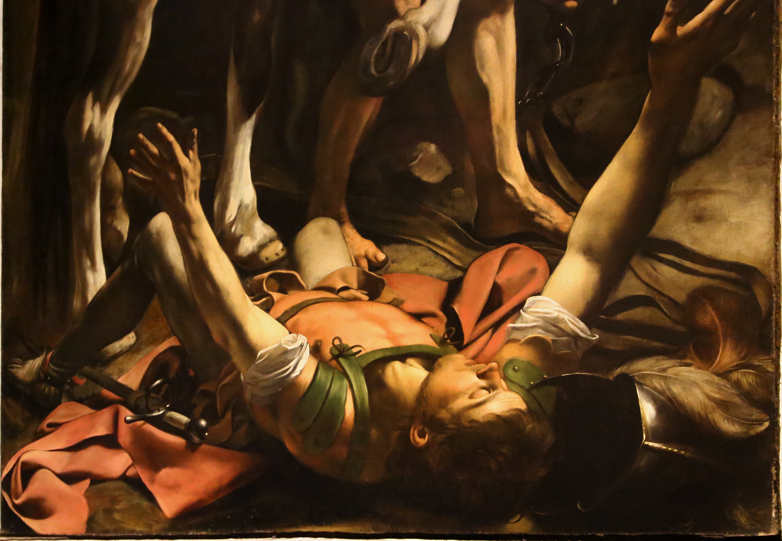 Santa Maria del Popolo (Rome) - Cappella Cerasi